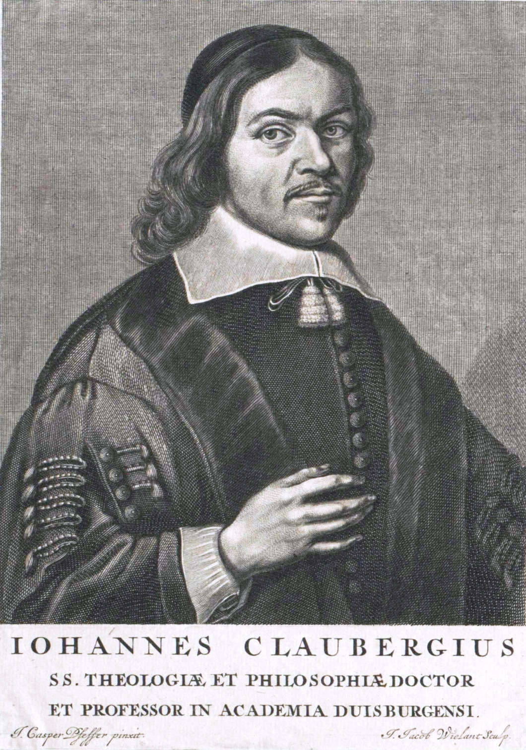 Summary Clauberg, engraving by J. Wielant Courtesy of the Staatsbibliothek, Berlin